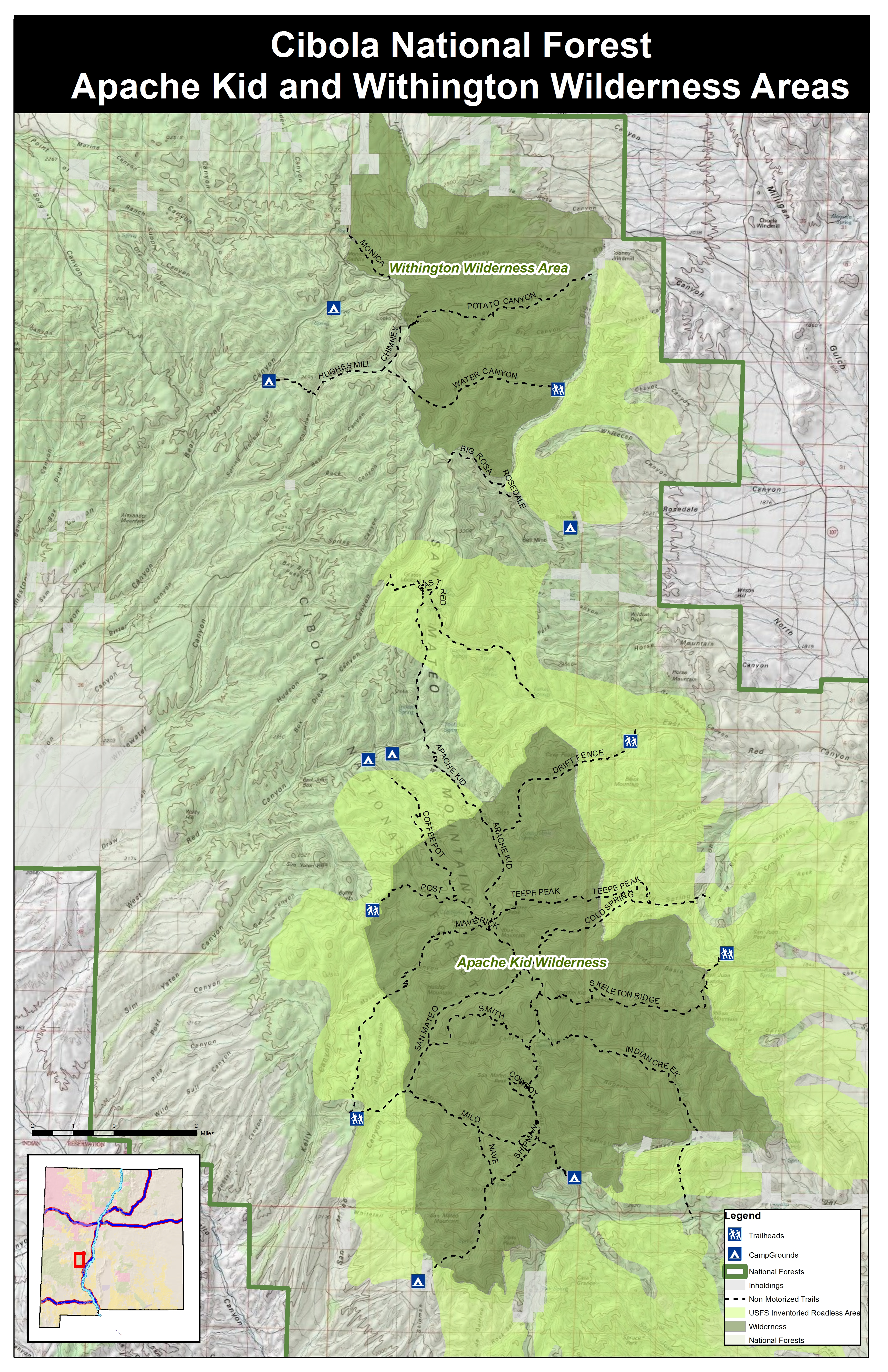 A map of the San Mateo Mountains — within the Cibola National Forest, located in Cibola and Socorro Counties, New Mexico. Showing the Apache Kid Wilderness and Withington Wilderness Areas (in Socorro County). The map also indicates the locations of the Cibola National Forest's Inventoried Roadless Areas.